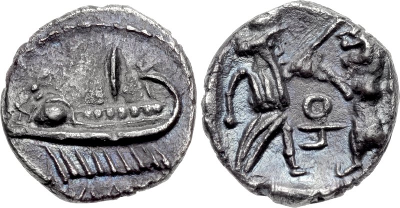 PHOENICIA, Sidon. Tennes. Circa 351-347 BC